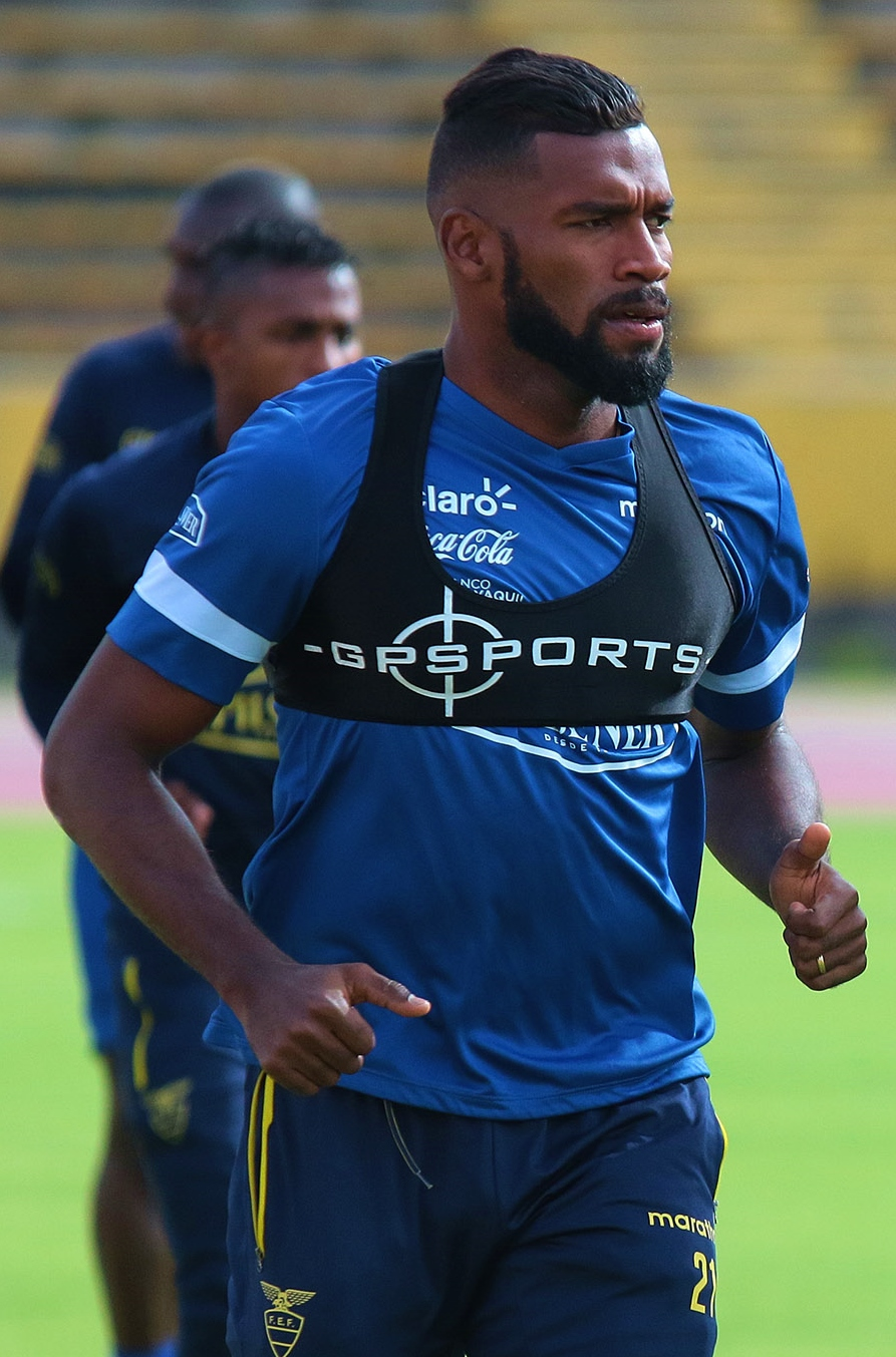 Gabriel Achilier